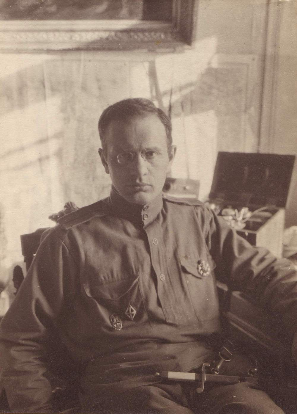 Semyon_Michailovich_Nakhimson_(1885-1918)